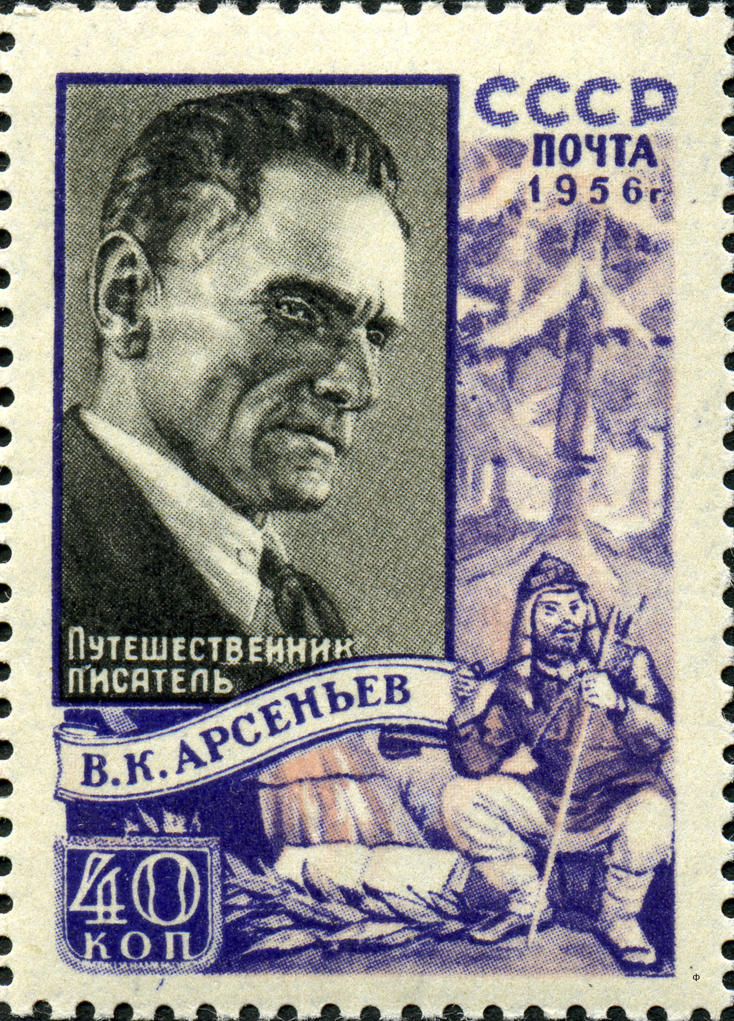 Soviet postage stamp of 40 kopeks (1956). Vladimir Arsenyev, author of Dersu Uzala (also shown on the postage stamp).